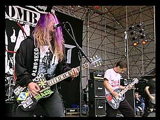 Max and Alex